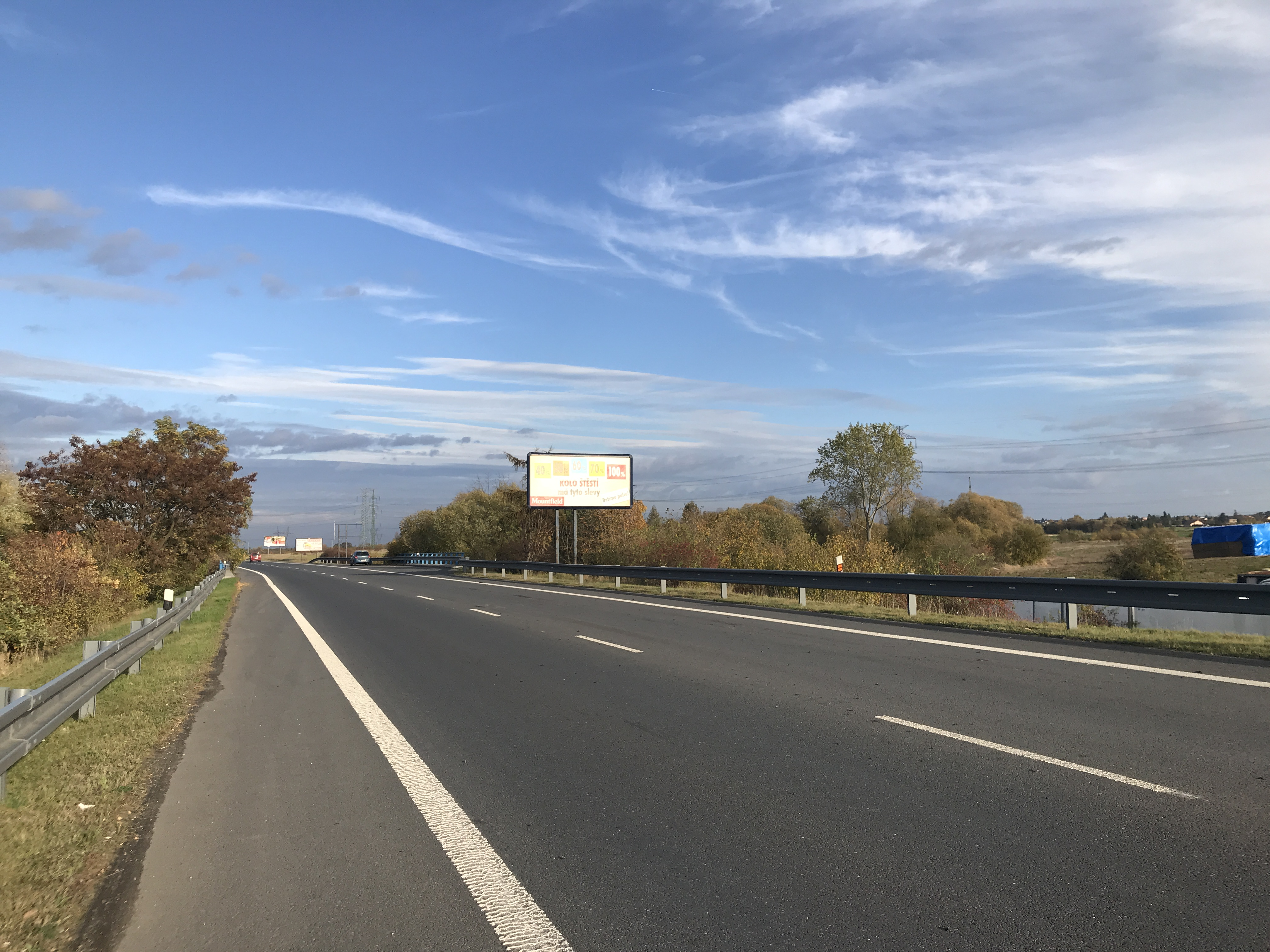 Road Kunratická spojka, 2017 (Kunratice)